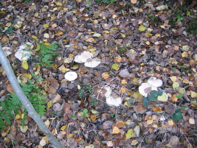 Forest litter consisting mainly of leaves fallen from birch trees.